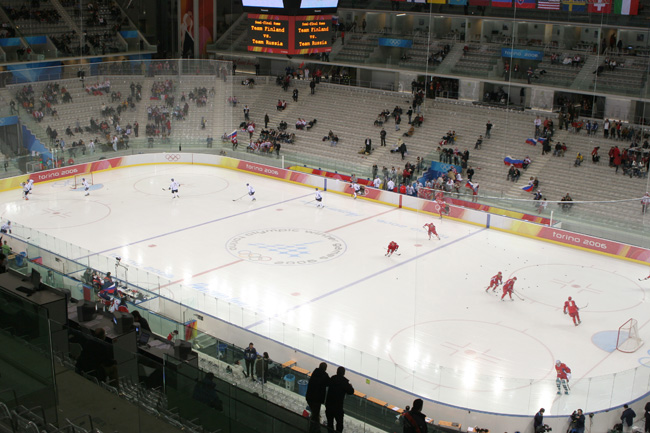 Finland vs. Russia, Semi finals of Torino 2006, Patinoire principale JO Turin 2006